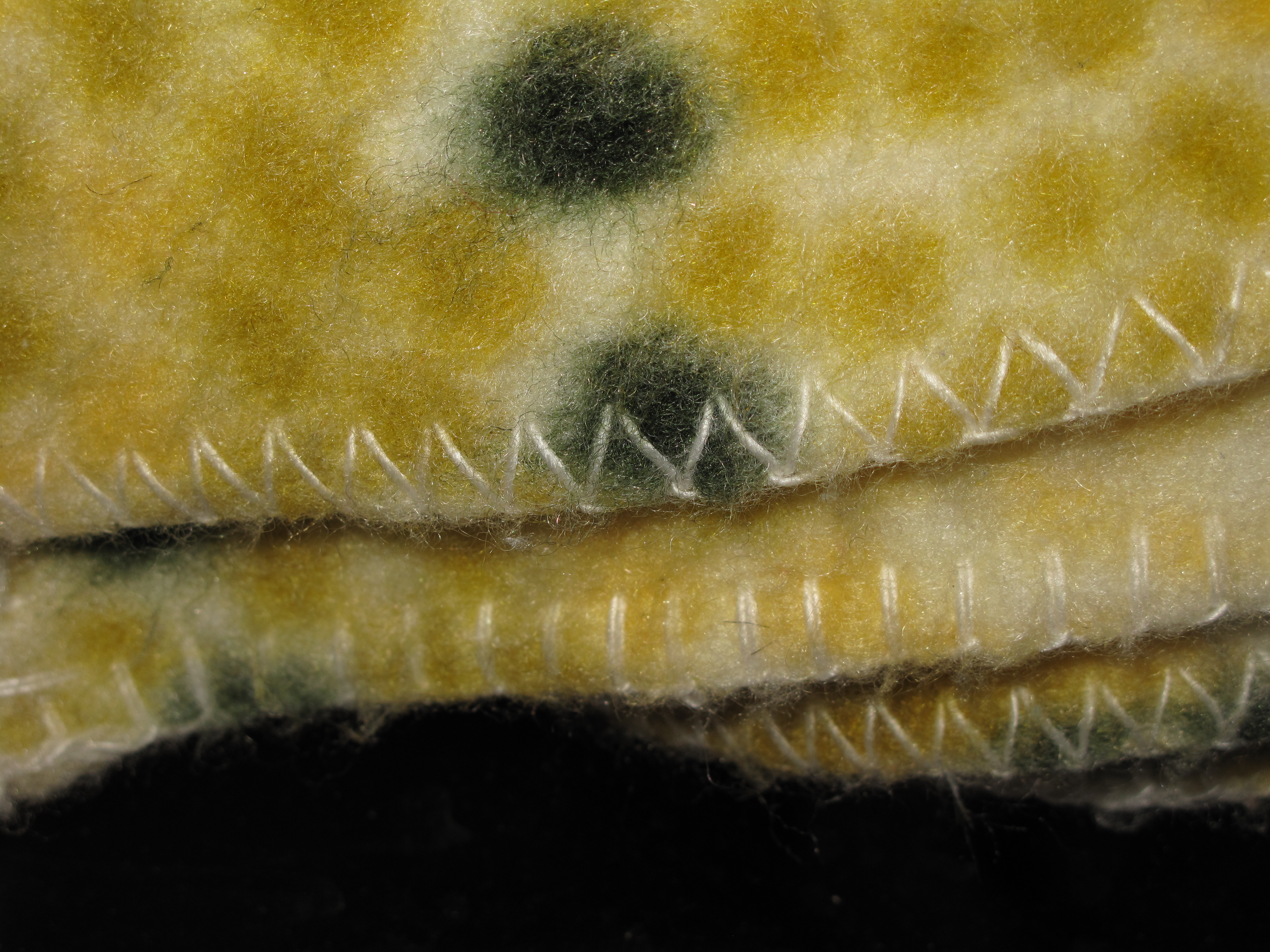 Bedding blanket called Larysa.